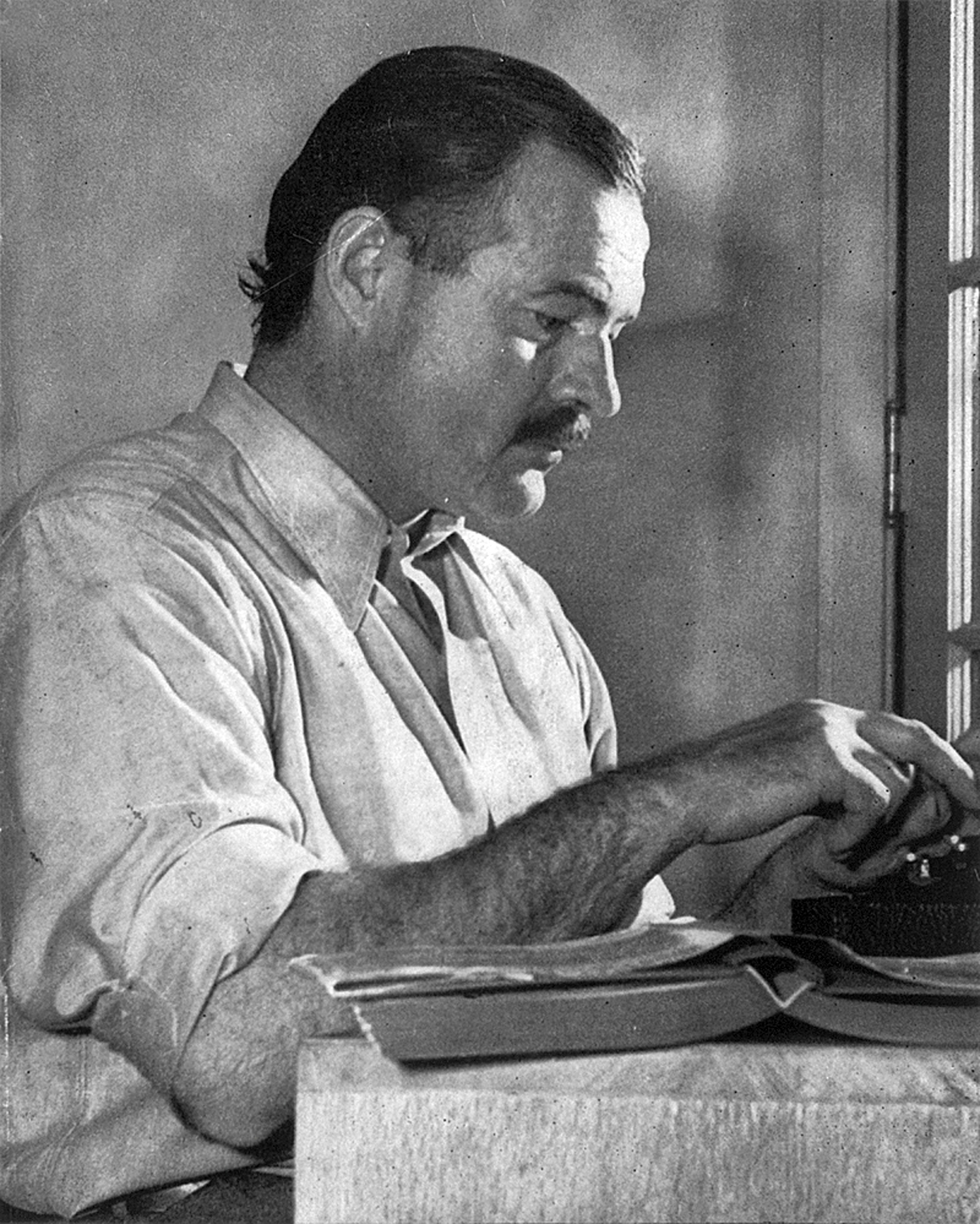 Hemingway posing for a dust jacket photo by Lloyd Arnold for the first edition of "For Whom the Bell Tolls", at the Sun Valley Lodge, Idaho, late 1939.